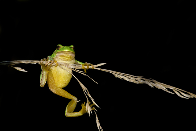 Hyla intermedia (Italian treefrog)